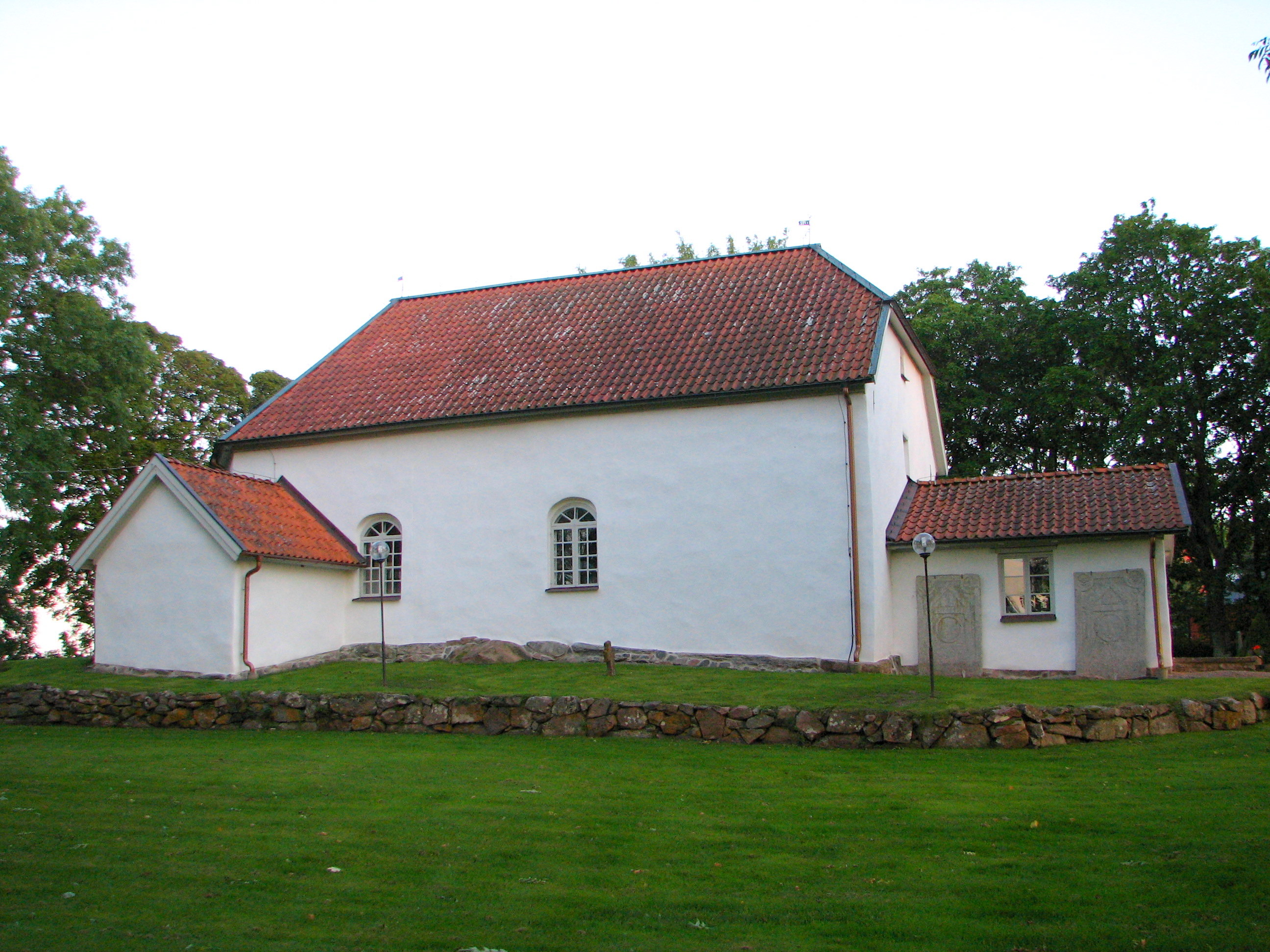 The church of Södra Lundby viewed from the north. The church is situated in Södra Lundby parish, Laske hundred, Vara municipality, former Skaraborg county, the Diocese of Skara, Västergötland, Västra Götaland county, Sweden.